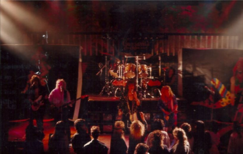 Antix live on Suset